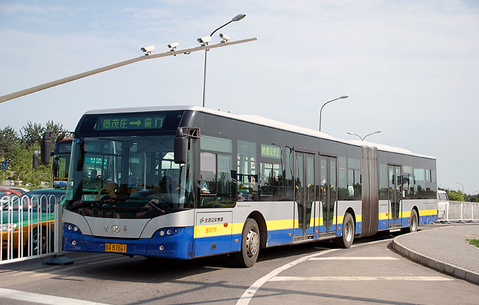 A Youngman-Neoplan articulated bus operating on Beijing's Bus Rapid Transit (BRT) Line 1. Notice that the doors are on the left side of the bus -- the BRT stations, which utilize center island platforms exclusively, necessitate this.